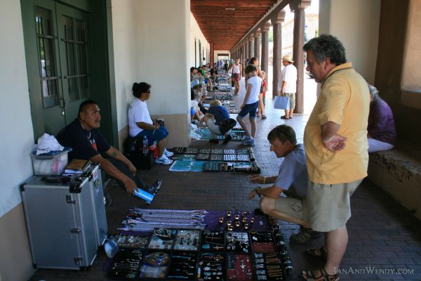 For more pictures, please Own photo, from website. At the Navajo craft market in the Plaza of Santa Fe Own photo, from website. For more pictures, please